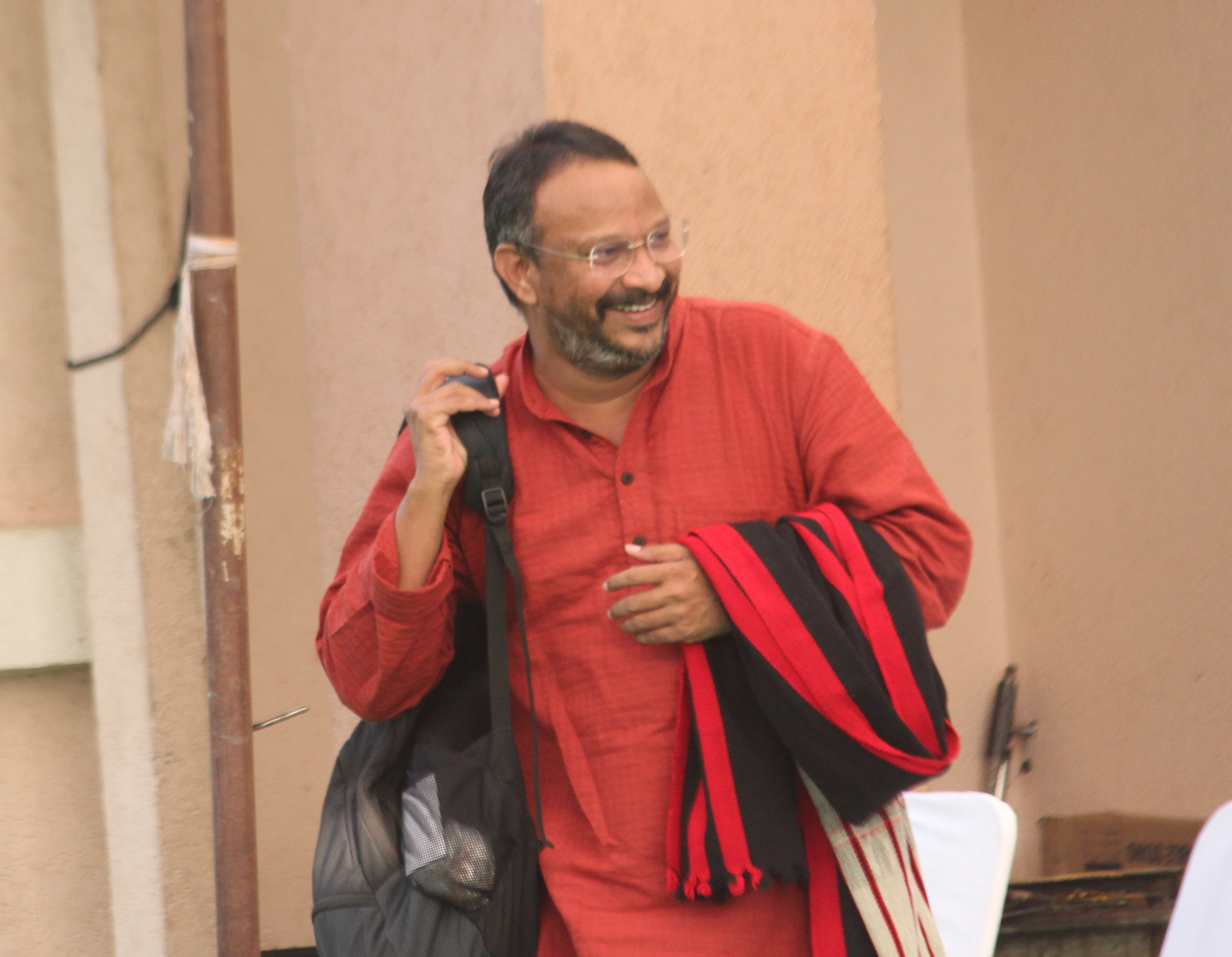 Bezwada Wilson attending the Bhopal Jan Utsav 2017